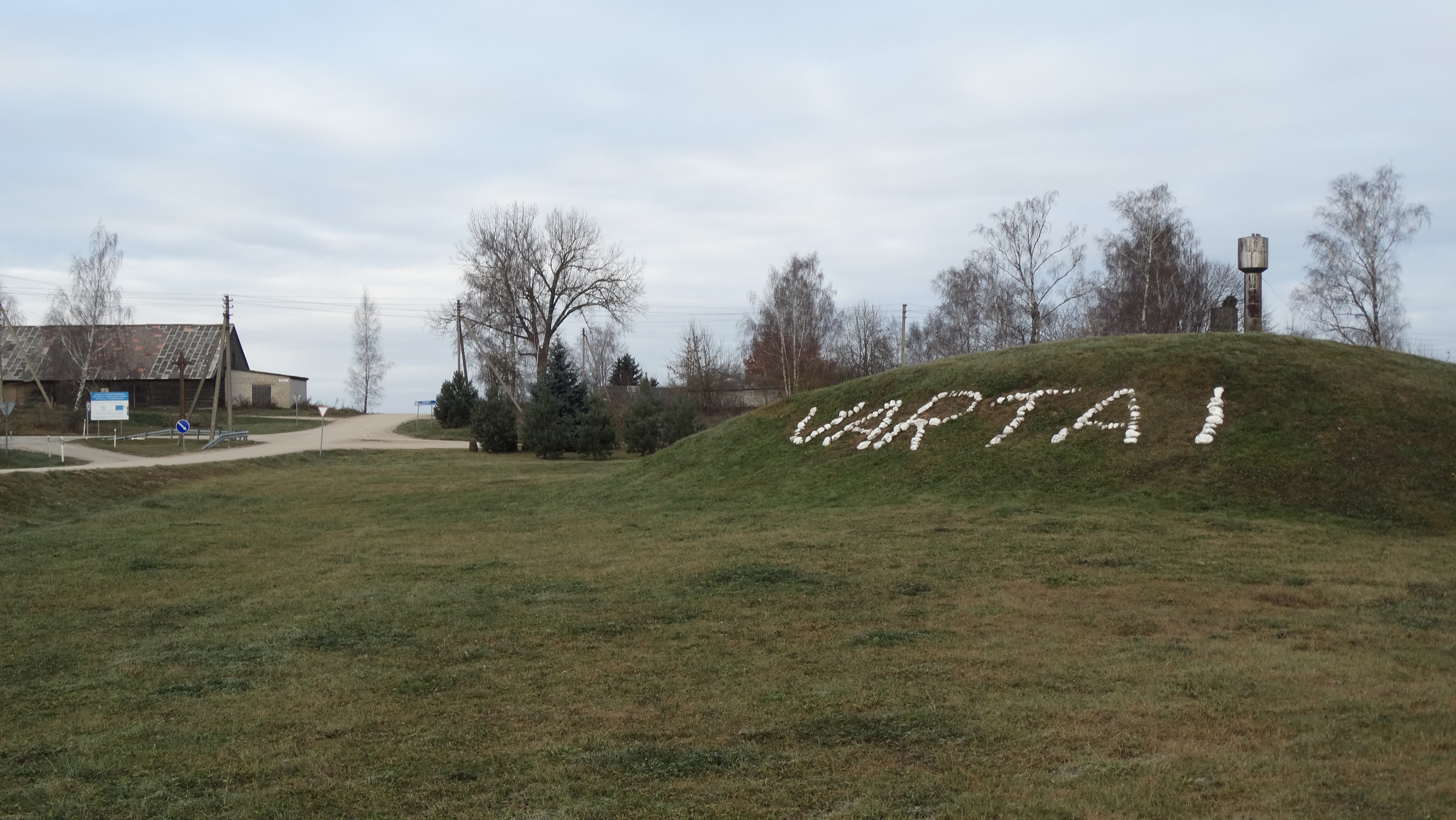 Vartai, Lazdijai District, Lithuania